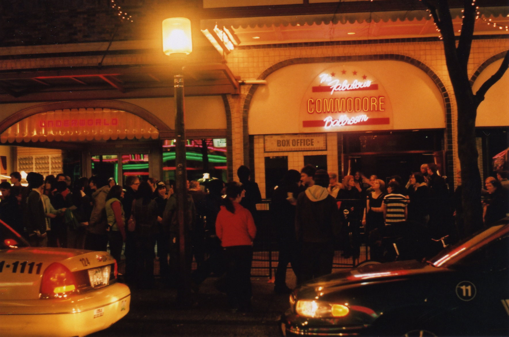 Photograph of the front of The Commodore Ballroom, 868 Granville Street, Vancouver, British Columbia, Canada.